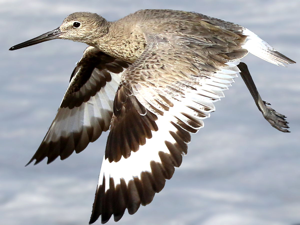 Willet in flight Rodanthe Public Beach, North Carolina